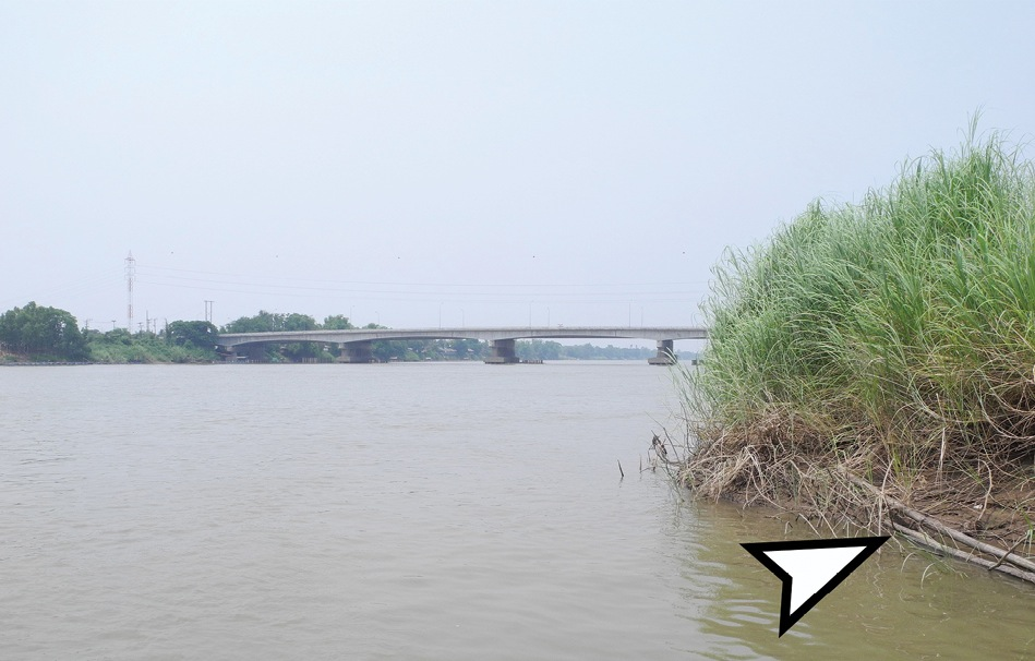 Type locality of Glyphidrilus chaophraya on a river bank of Chaophraya River, Payuhakiri, Nakhonsawan, Thailand.